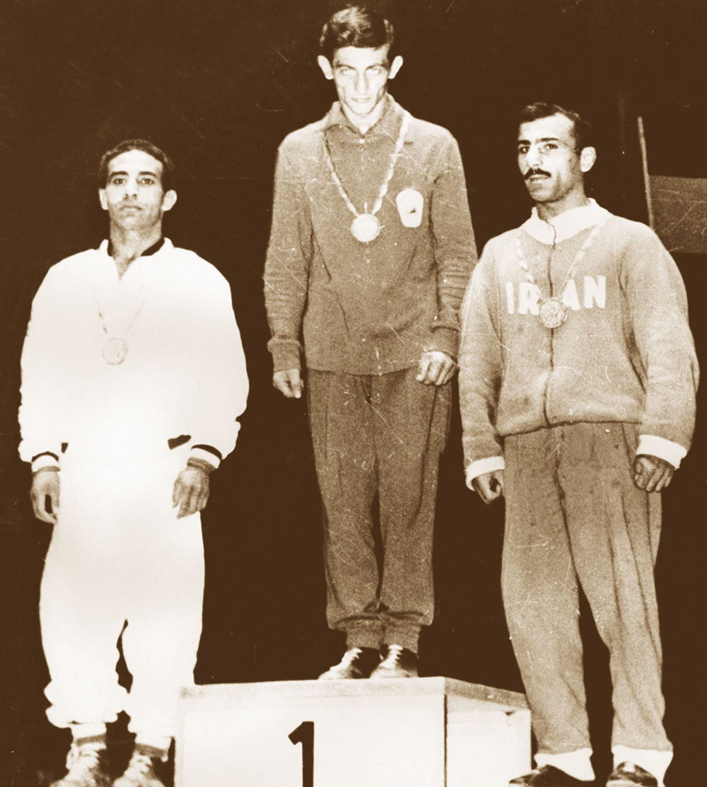 1960 Olympics, 52 kg Greco-Roman wrestling podium